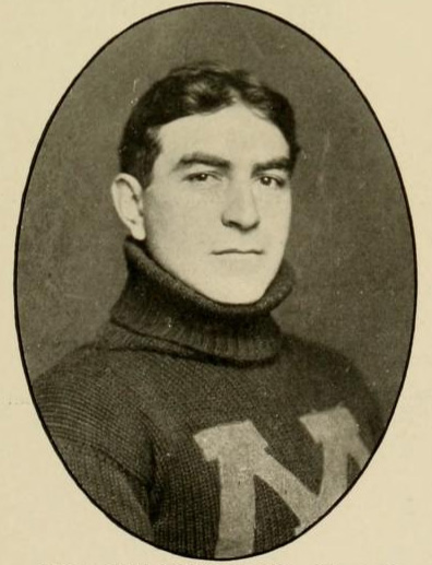 W S Kienholz